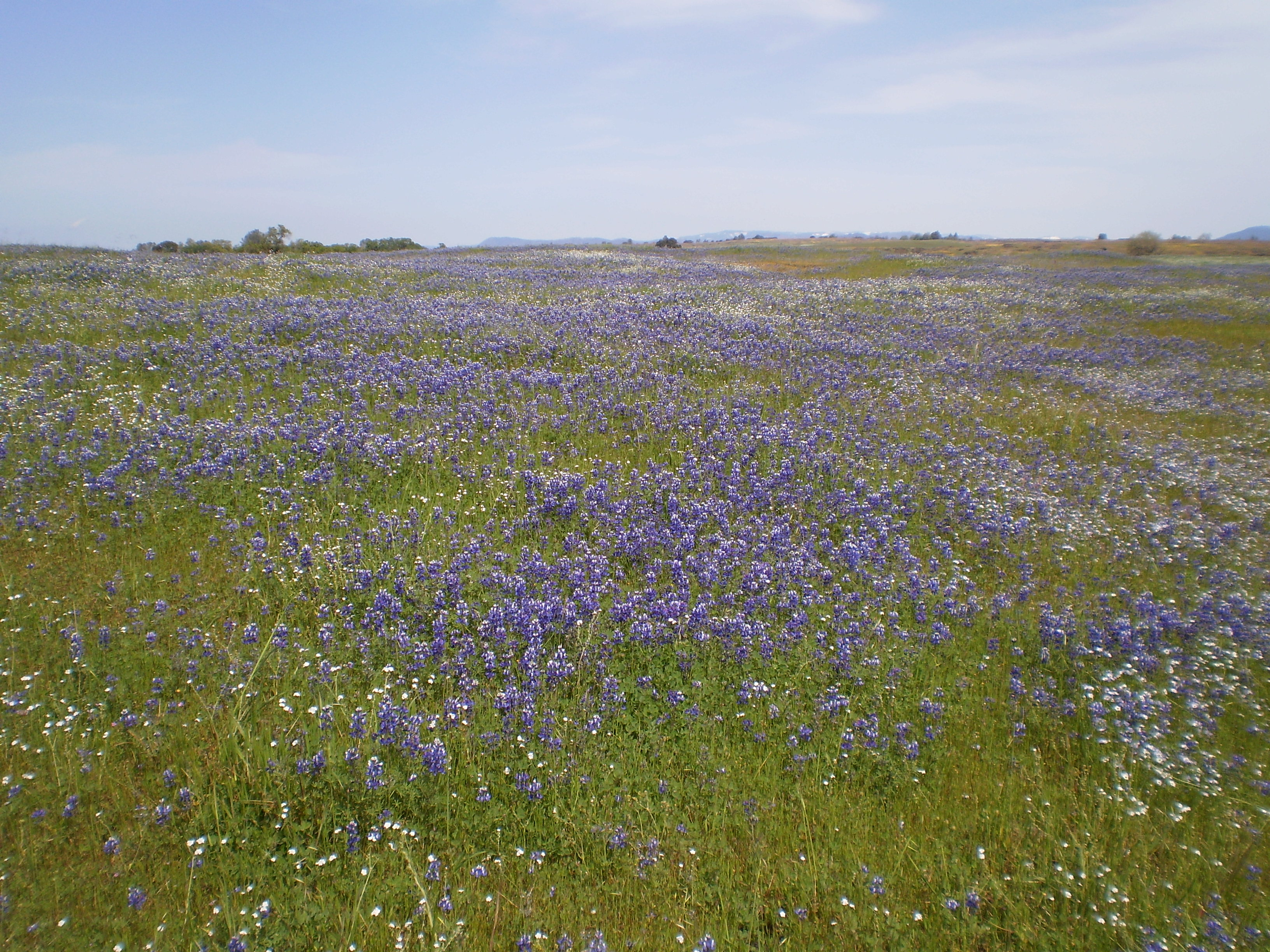 Lupine Field On Table Mountain (Butte County, California)